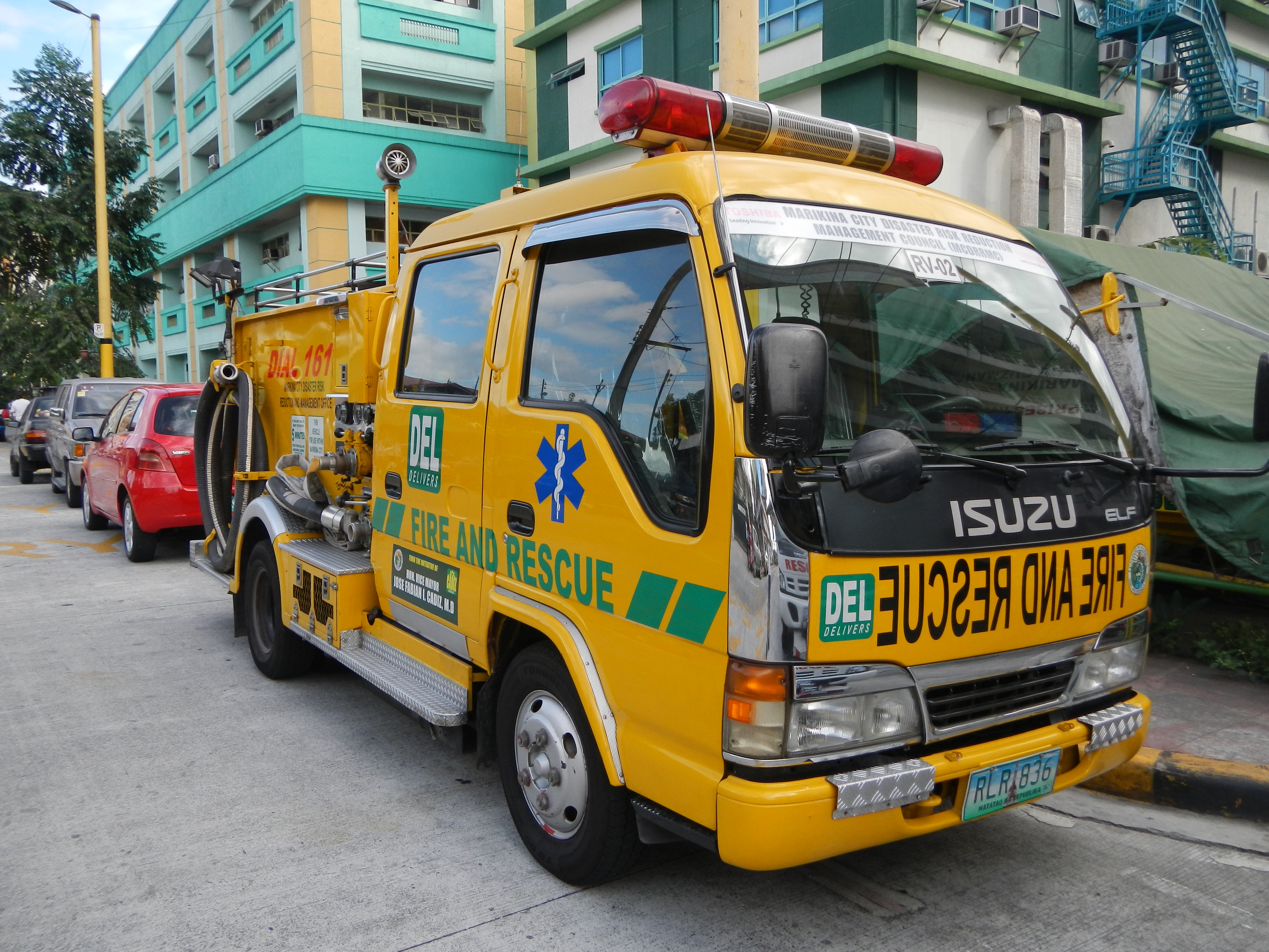 Upload Wizard photos of the - Marikina City[1] Marikina Healthy City Center Building City Health Office, Pedestrian Waiting Shed, Marikina Statue depicting Health by Doctor and small boy, [2] Sumulong Highway[3] Marikina Sports Complex [4], Barangay Santo Niño Eulogio Rodriguez[5] Amang Rodruguez Medical Center Toyota Avenue Corner Sumulong National Road.